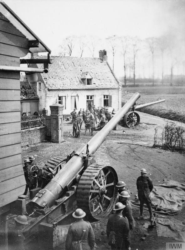 The German Spring Offensive, March-july 1918 The Battle of the Lys (Operation Georgette). Gunners of the 29th Siege Battery RGA firing a 6 inch Mark VII gun. Near Caestre, 23 April 1918.